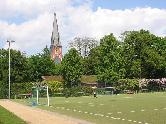 Volkspark Wilmersdorf in Berlin; football playground and Auenkirche church in the background